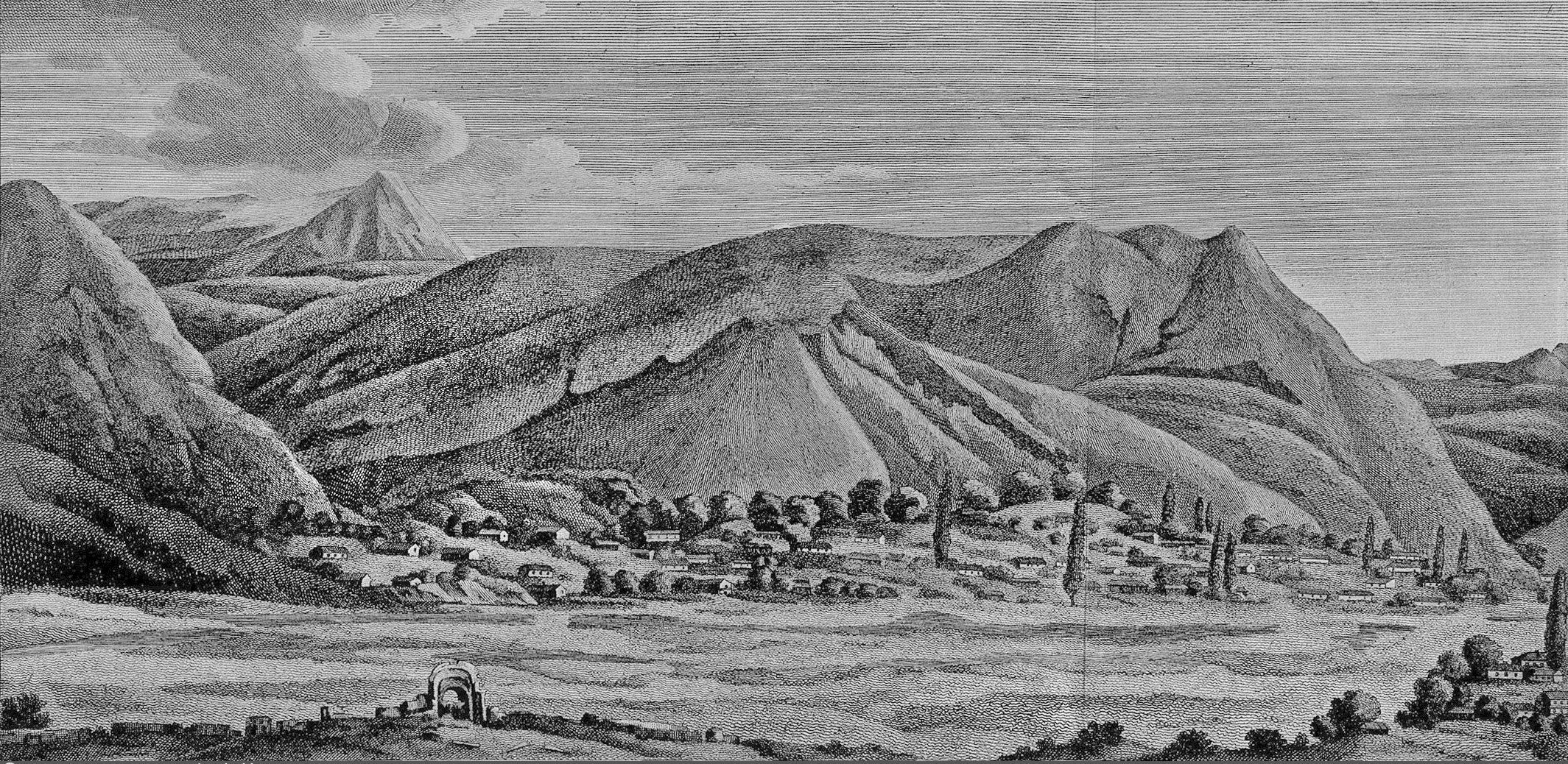 Village Beshuy, Crimea,engraving 1805